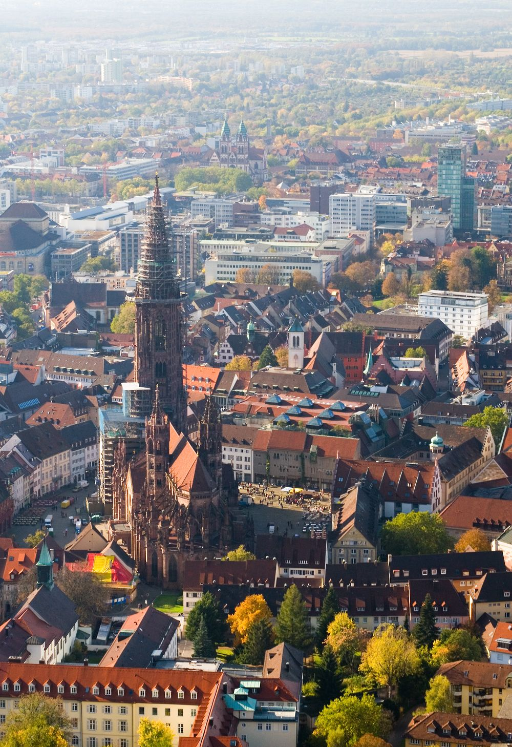 Bit of a snapshot, but the colours that day were lovely. No editing apart from sharpening.